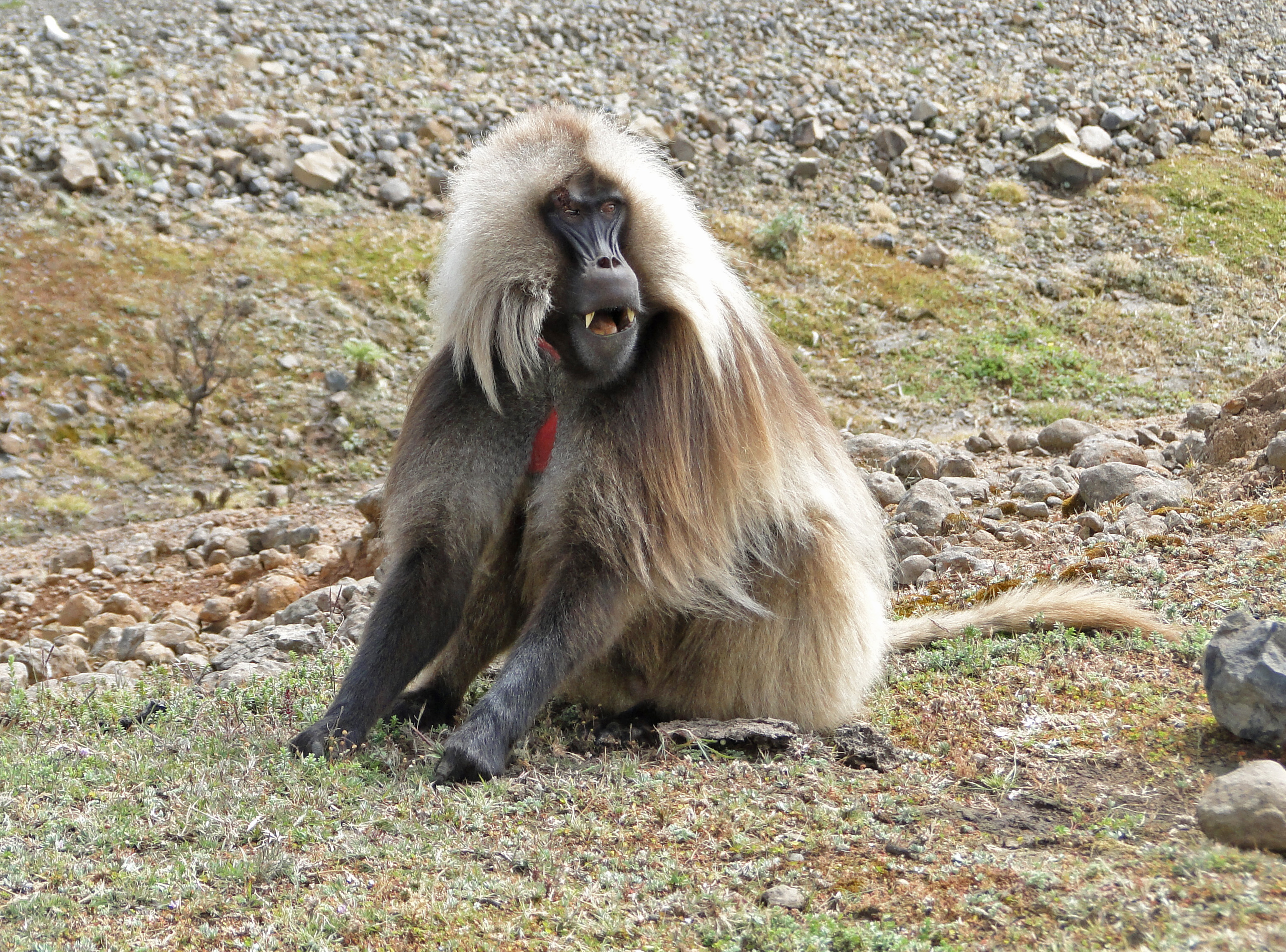 A male gelada (Theropithecus gelada) in the Simien Mountains National Park, Ethiopia